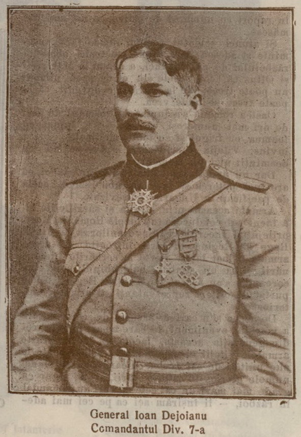 Romanian General Ioan Dejoianu - brigade commander during WWIRomână: Generalul Ioan Dejoianu - comandant de brigadă în Primul Război Mondial